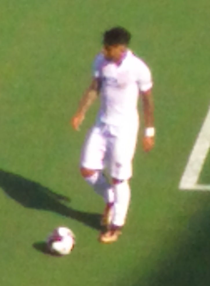 Gabriel playing for Santos against São Bernardo on 30 January 2016, at the Vila Belmiro.